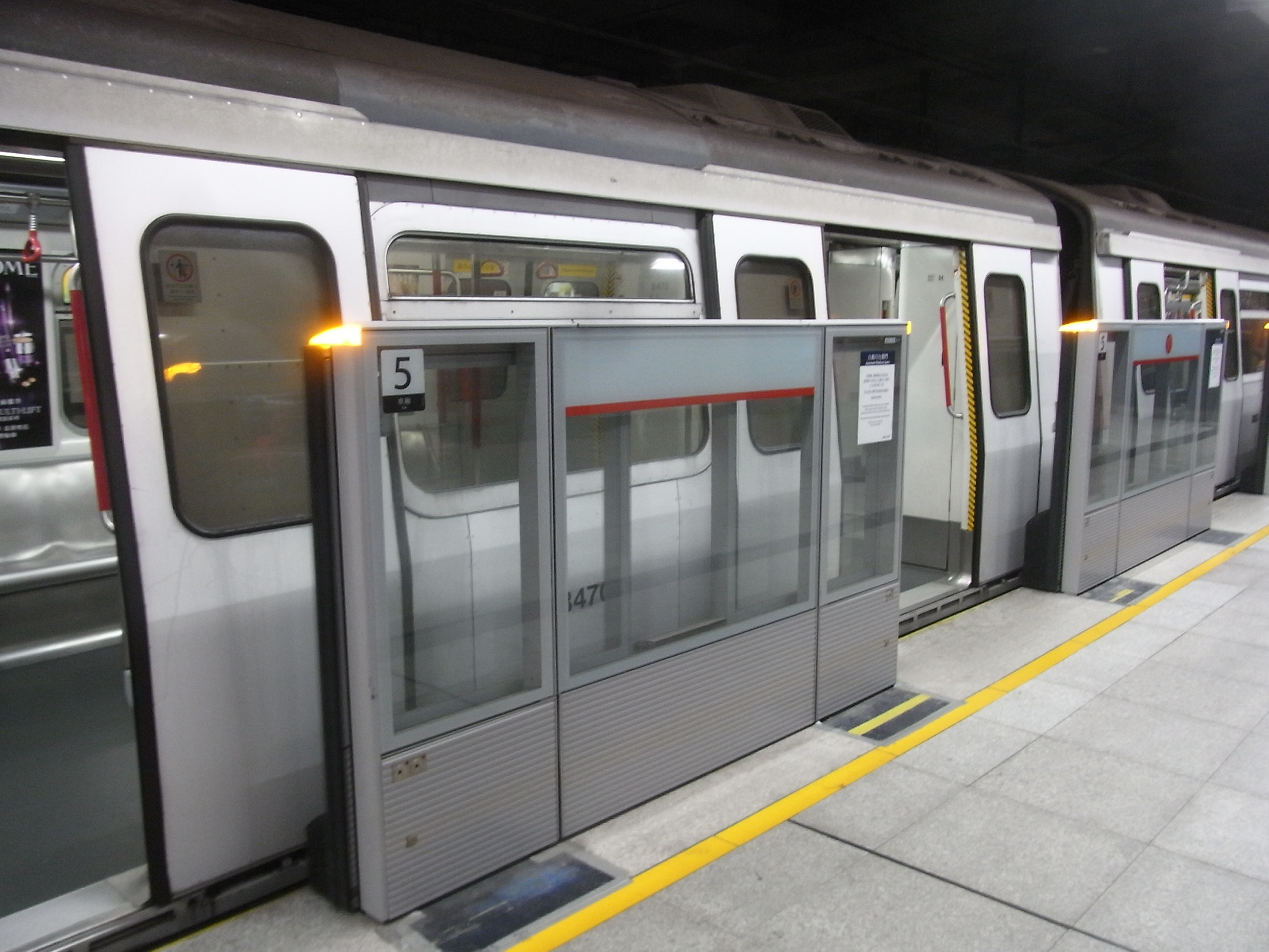 荃灣站, Tsuen Wan MTR Station in December 2012